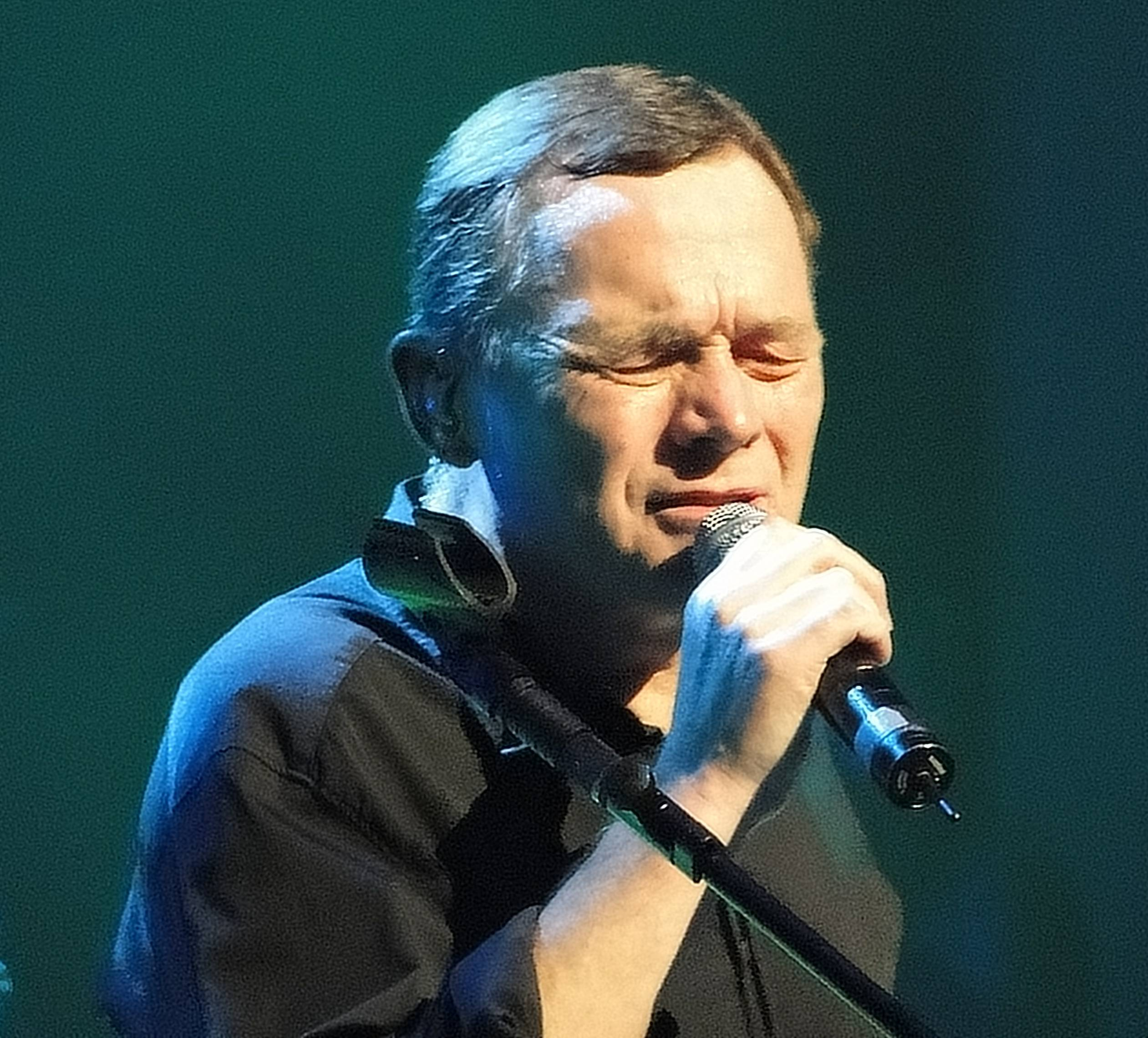 Duncan Campbell, lead-singer with UB40 at Birmingham Symphony Hall, October 2010